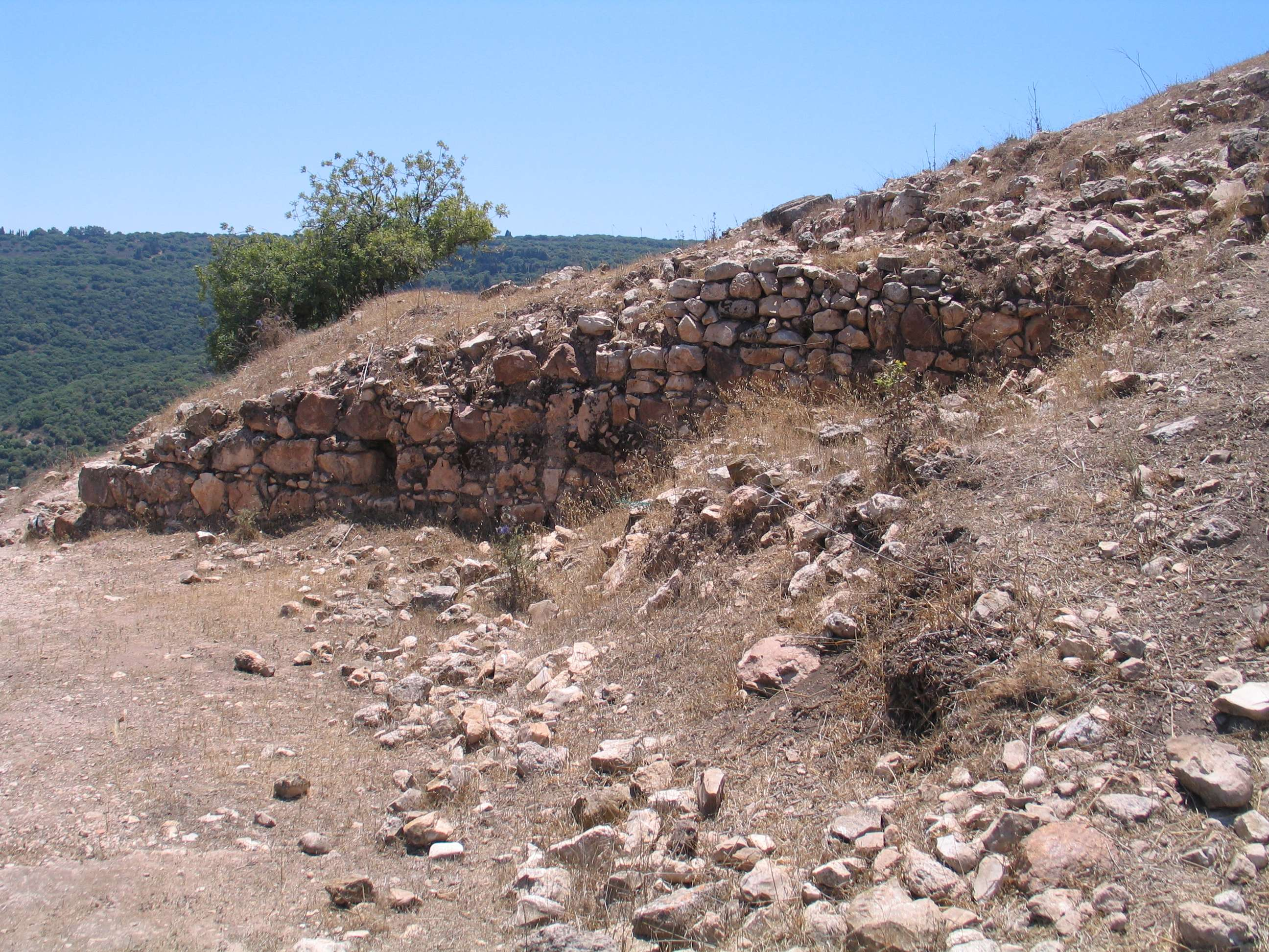 Tel Yodfat, Israel.